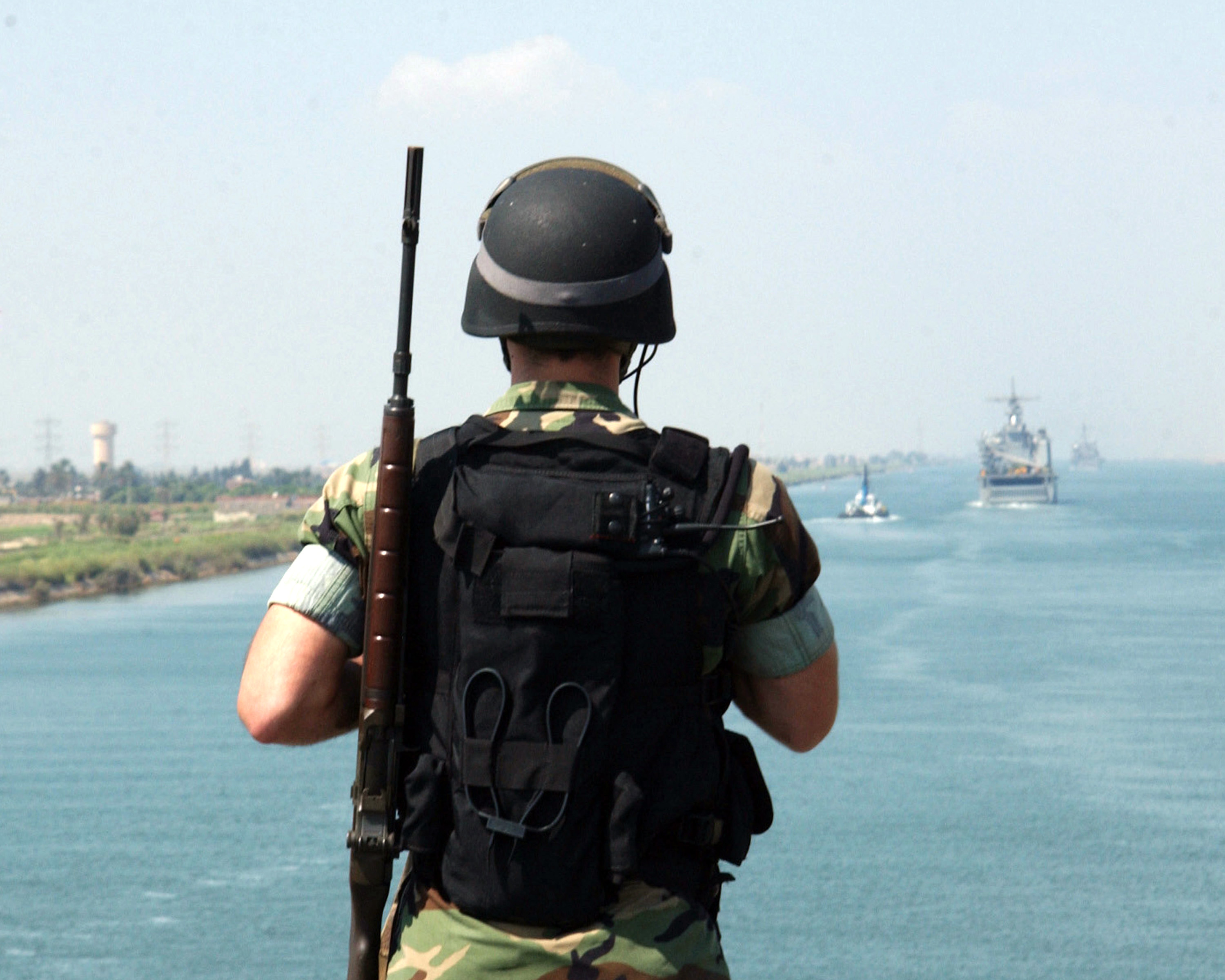 Suez Canal (Sept. 10, 2005) – Master-at-Arms 2nd Class Robert Pallozzi stands a flight deck security patrol as the amphibious assault ship USS Tarawa (LHA 1) transits through the Suez Canal. Tarawa is in route to the Mediterranean Sea to participate in exercise “Bright Star”, a multinational exercise held every two years in Egypt. Bright Star is the largest and most significant coalition military exercise conducted by U.S. Central Command. The exercise is an important part of U.S. Central Command’s theater engagement strategy and is designed to improve readiness and interoperability and strengthen the military and professional relationships among U.S., Egyptian and participating forces. U.S. Navy photo by Lithographer's Mate 3rd Class Elena Velazquez (RELEASED)